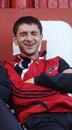 Otar Martsvaladze